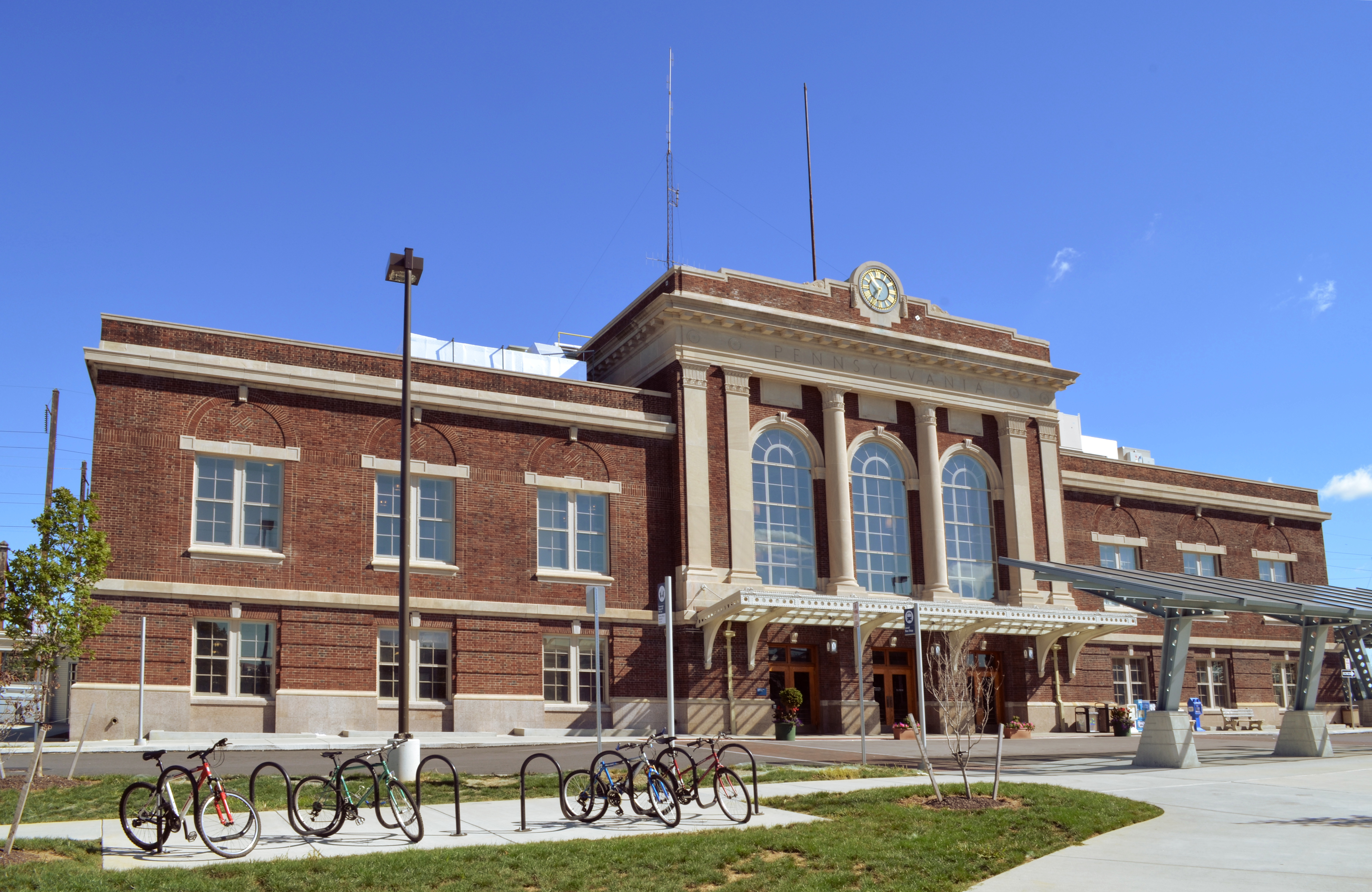 The Lancaster Amtrak station in Lancaster, Pennsylvania. The station was renovated from 2009 to 2012. It is a contributing property to the Lancaster City Historic District